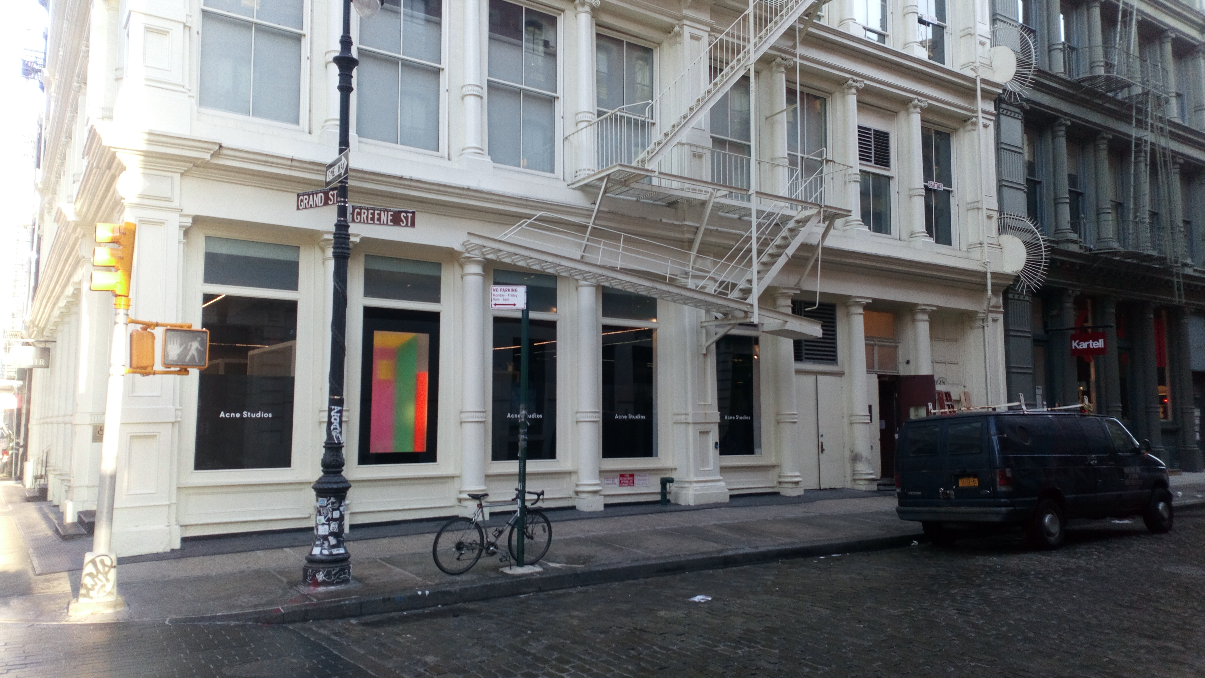 NYC, the United States of America